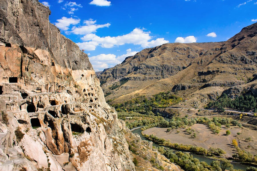 Vardzia and Mtkvari valley, Georgia